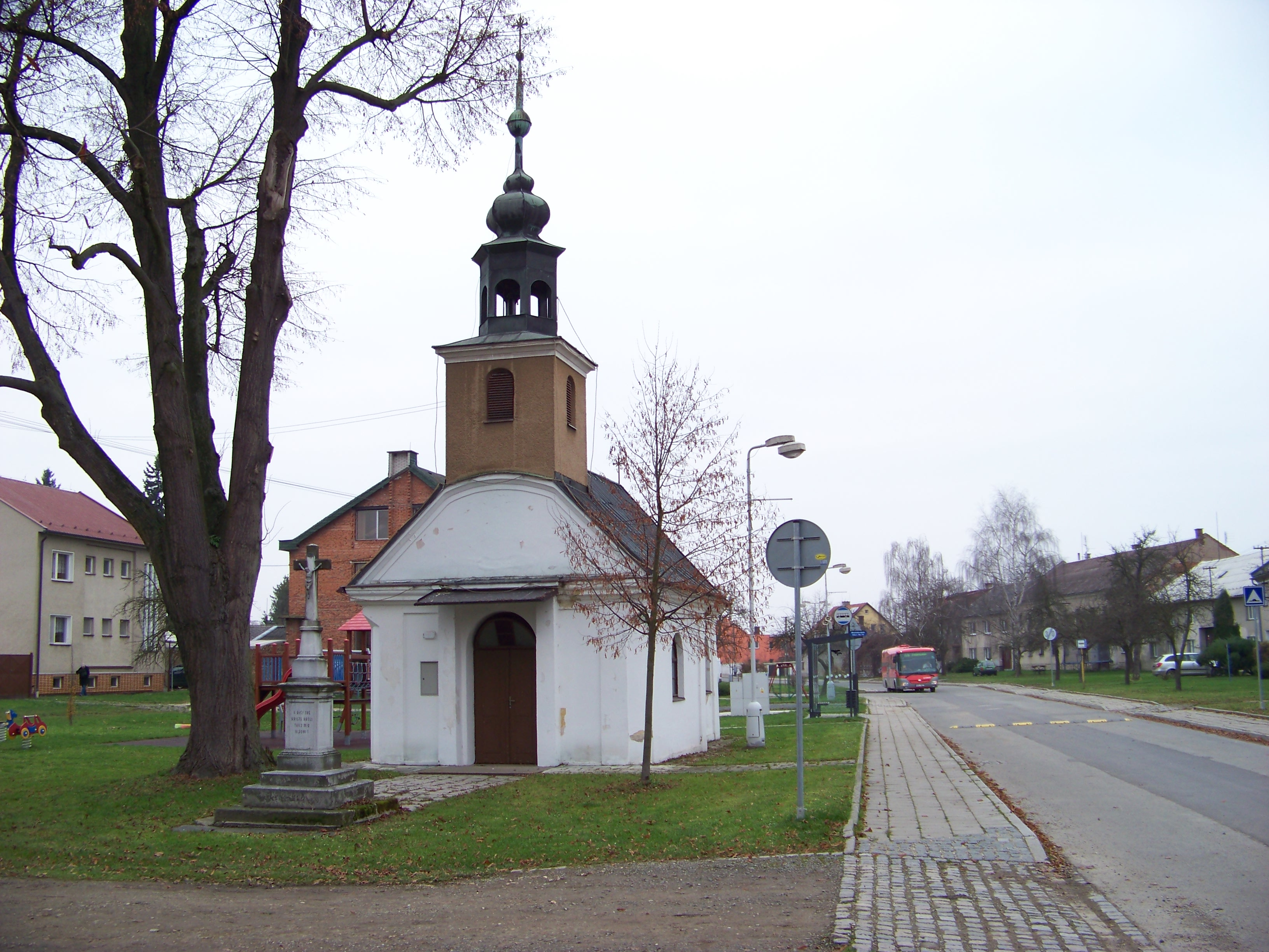 Křelov-Břuchotín-Břuchotín, Olomouc District, Olomouc Region, Czech Republic. Družby národů, chapel of the Holy Trinity.